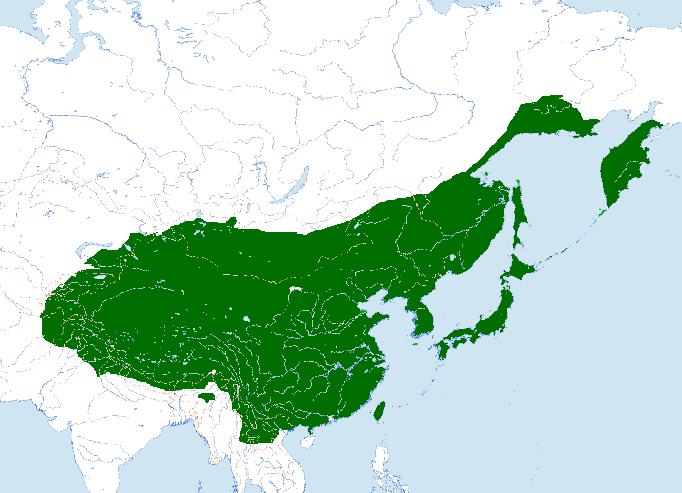 Brown Dipper - Range Map